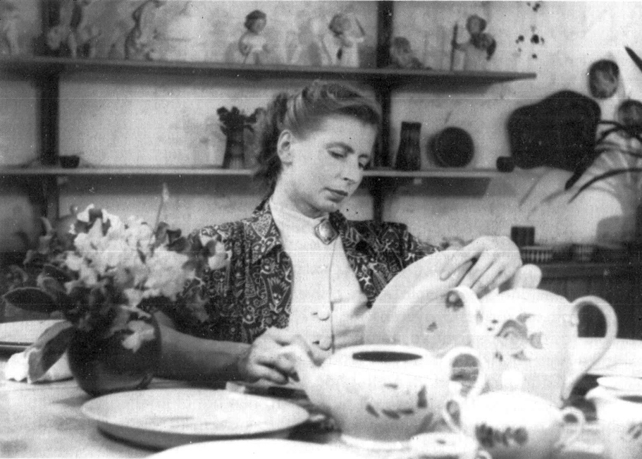 Photograph of the Finnish sculptor Anja Juurikkala (1923–2015) in her atelier.